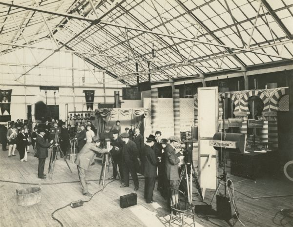 Production still showing how three or more silent film scenes could be simultaneously filmed under the glass roof of the Thanhouser studio. The print is captioned "Thanhouser 2nd Studio," suggesting that this is the interior of the Thanhouser studio built on Main Street in New Rochelle, New Jersey, to replace the first studio which burned in 1913. Visible are actors in costume, directors, cameramen, sets, a Klieglight, and four Pathé silent film cameras.